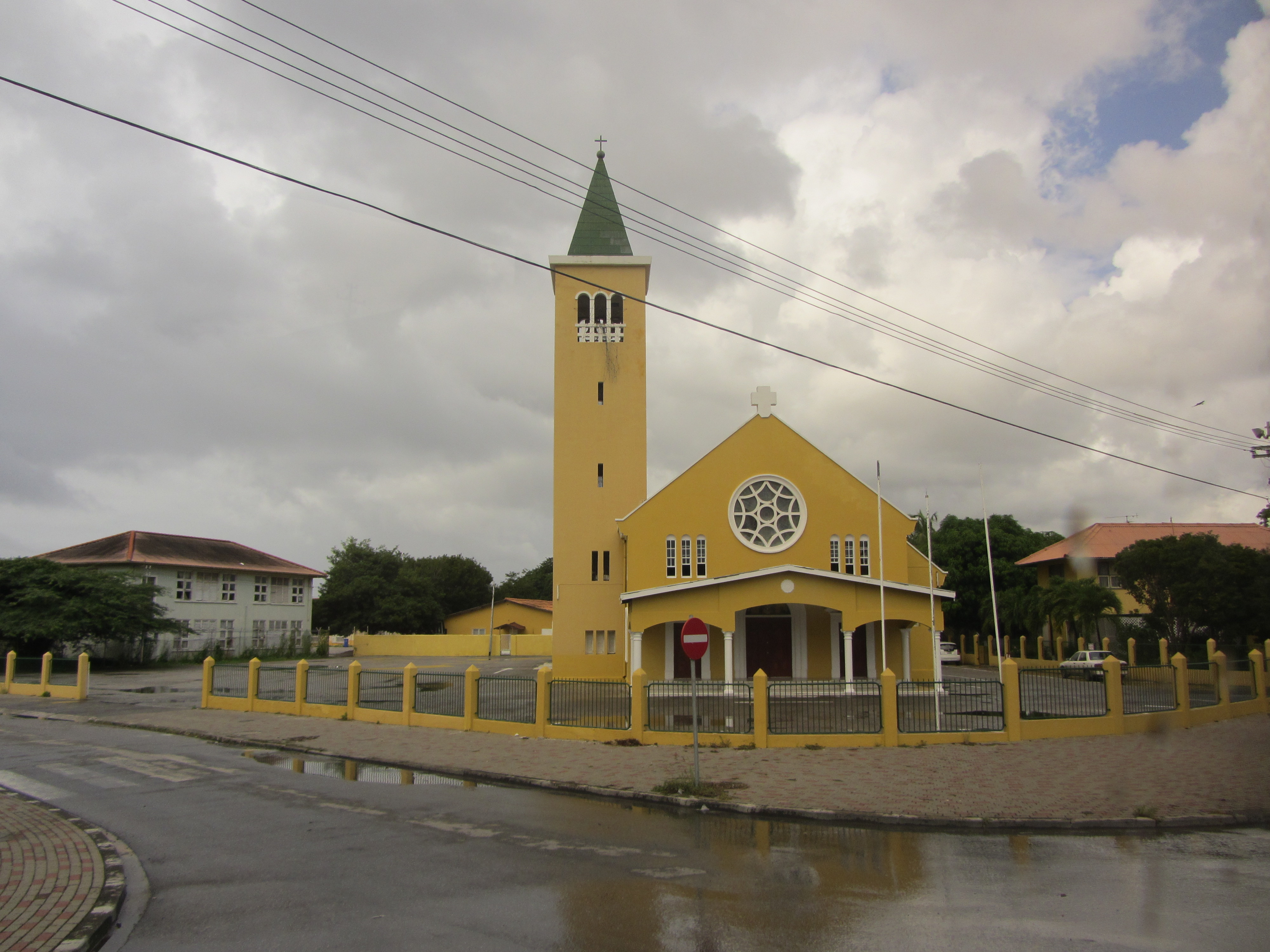 Anglican Church on Oranjestraat in Curaçao